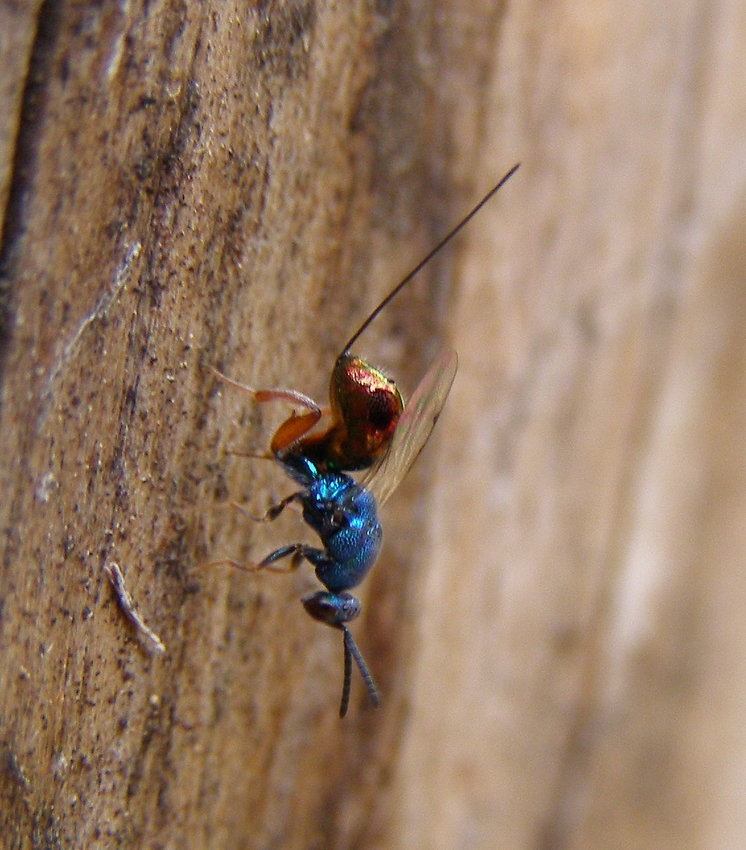 Female ovipositing on an old block of pine tree. Vago ID